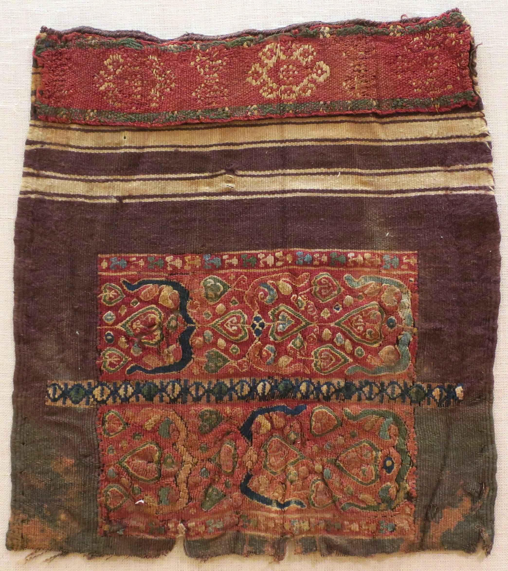 Coptic textile fragment, 4th or 5th century, Egypt, Byzantine period, wool, linen and dye, Lowe Art Museum